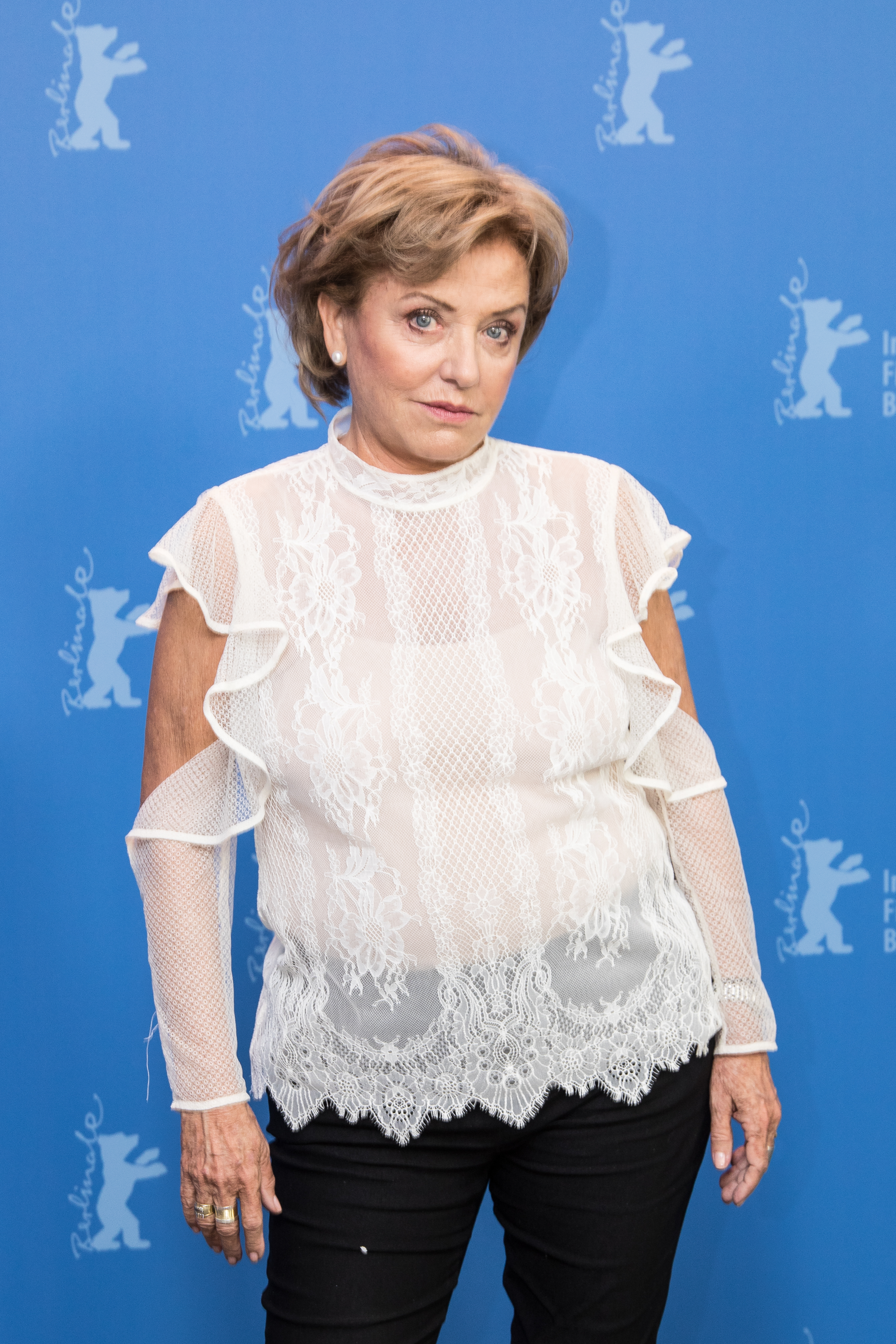 Actress Ana Brun at hte photo call for the movie "Las Herederas" at the Berlinale 2018